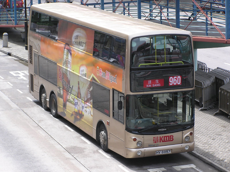 A "Dennis Trident" bus of Kowloon Motor Bus at Wan Chai Pier Bus Terminus in Hong Kong.